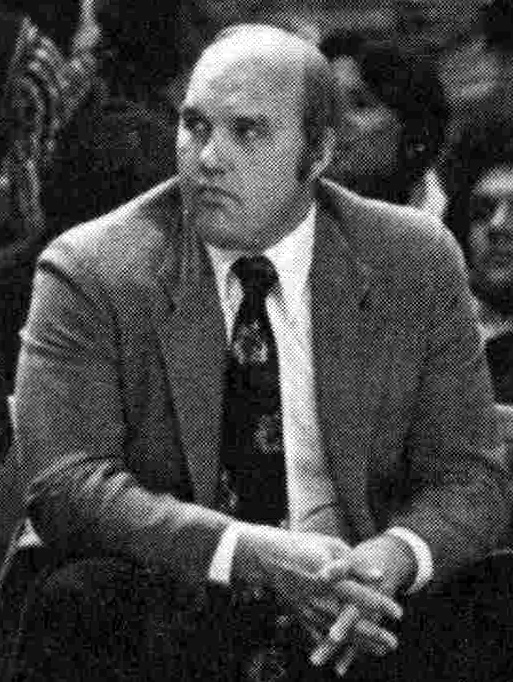 Marquette University men's basketball assistant coach Rick Majerus in the 1977-1978 season.